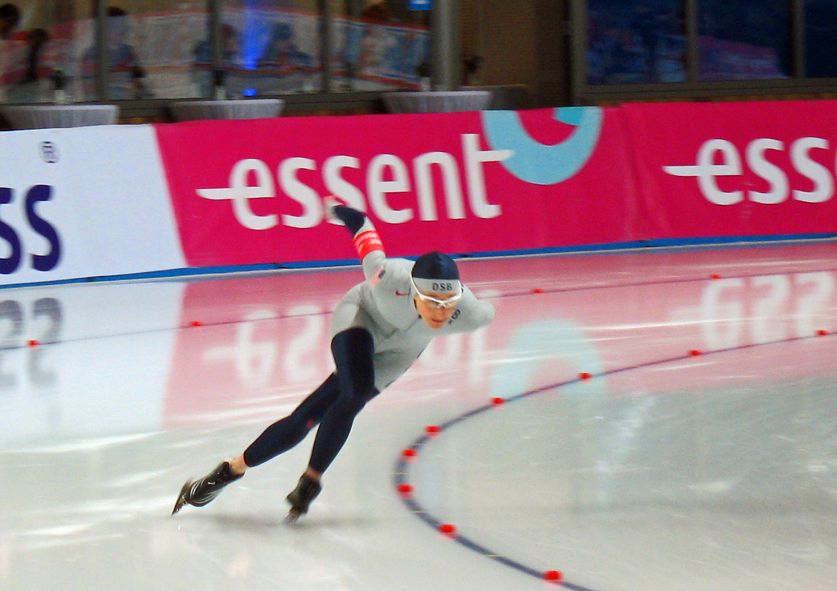 Jennifer Rodriquez racing 1.000m World Cup Berlin november 2008